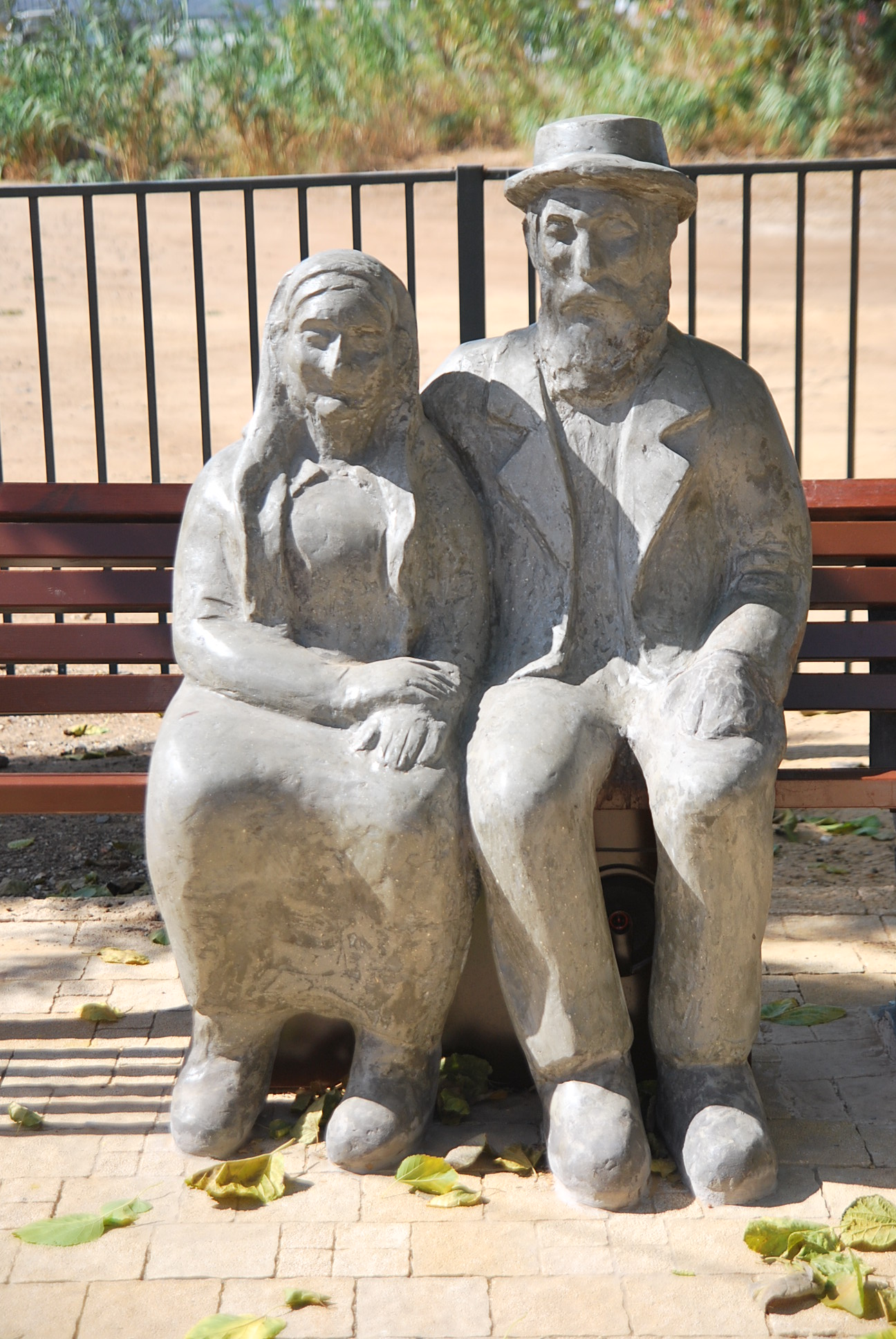 Settlements in Israel